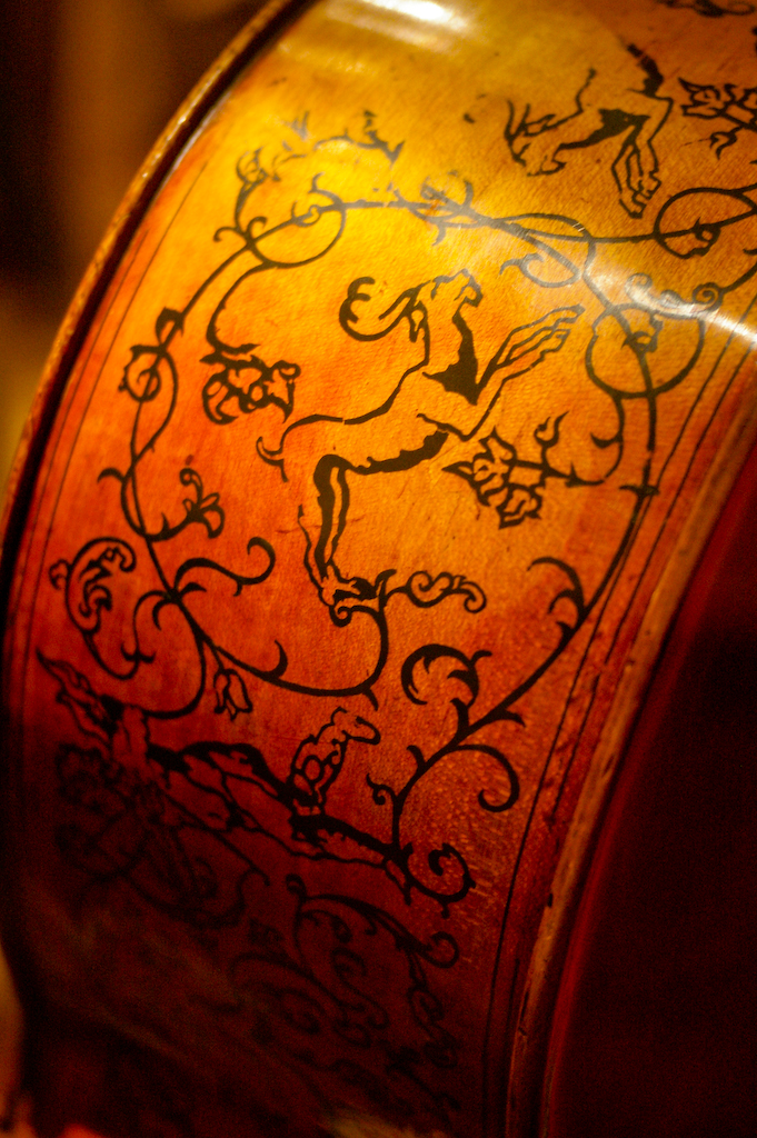 Stradivari Marylebone Cello by Antonio Stradivari (1688, Cazenove, Marylebone) - upper right body side graphic - National Museum of American History References Cello by Antonio Stradivari, 1688 (Cazenove, Marylebone). . Cozio LLC.